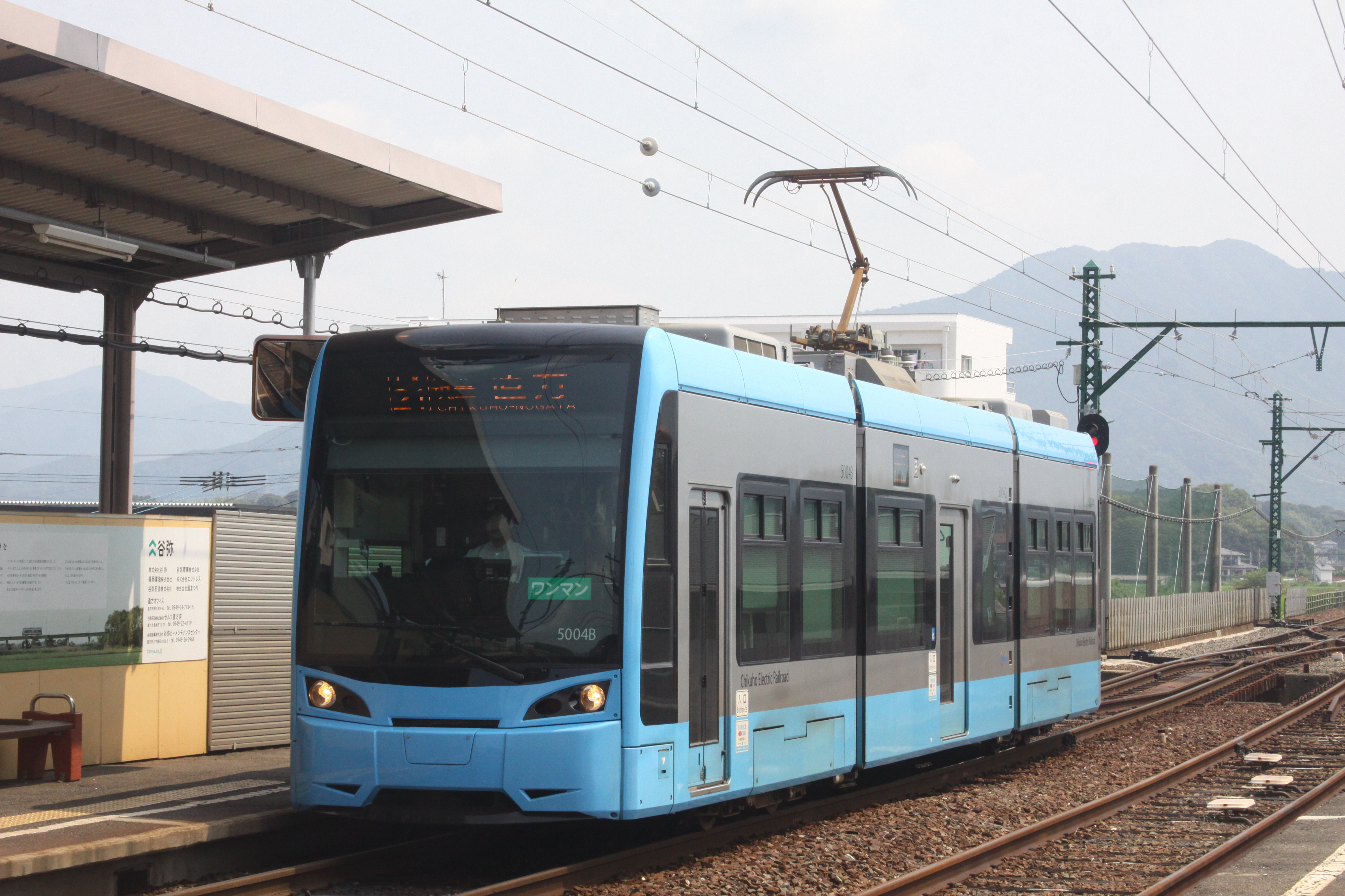 Chikuho Electric Railroad 5000 series tramcar 5004